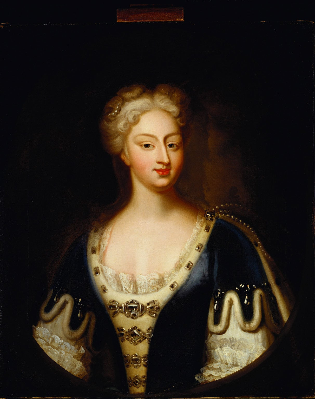 Seeman was an artist of Dutch extraction born in London who worked for George II and Frederick, Prince of Wales, but whose output is represented in the Royal Collection by versions of just two images – official portraits of George II and Queen Caroline (OM 508 and 511, 405678 and 406182), probably created soon after their accession in c. 1730. This is one of a pair of versions of the royal portraits (OM 510 and 513, 406201 and 402756), which may originally have been full-length like the others or possibly smaller. They have certainly been cut down to head and shoulder format, with an oval frame clearly painted over the original drapery. The Queen appears dressed in state robes with pearls at the shoulder, a tress of hair hanging down onto her right shoulder.